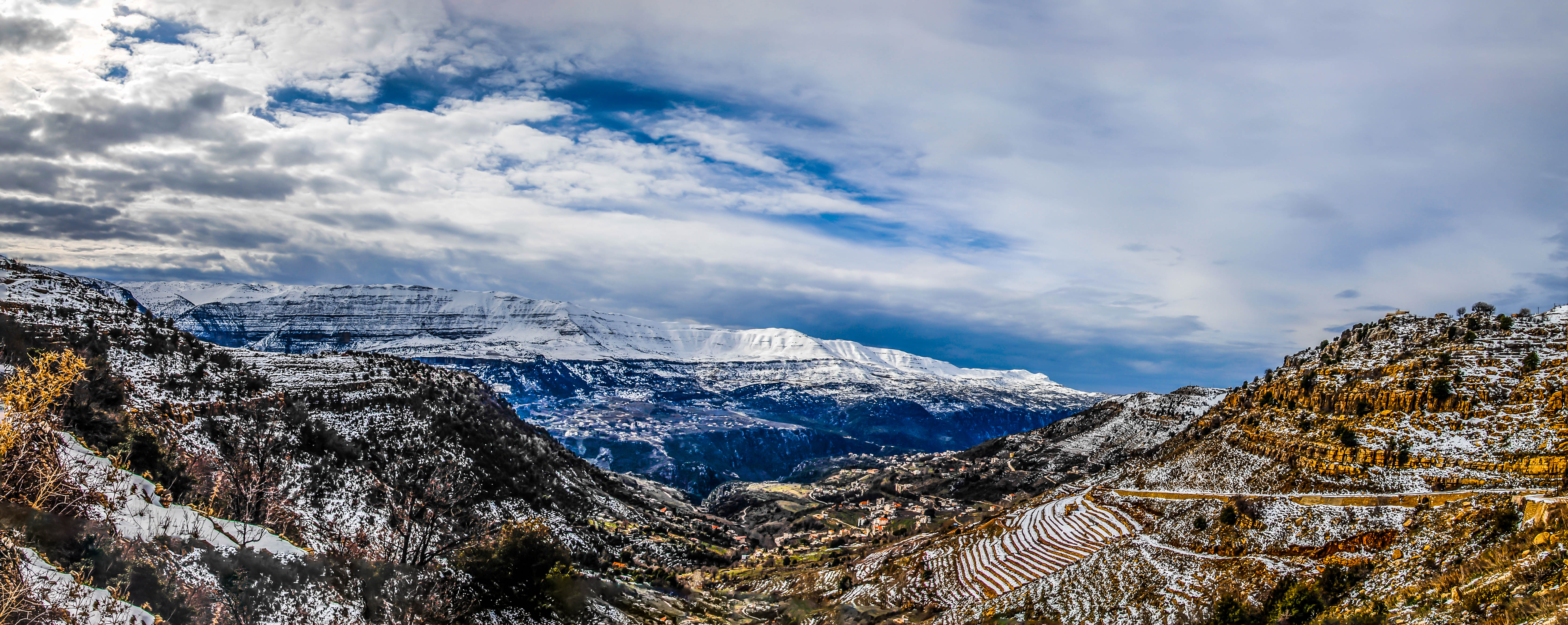 Qartaba View From The Road To Laklouk